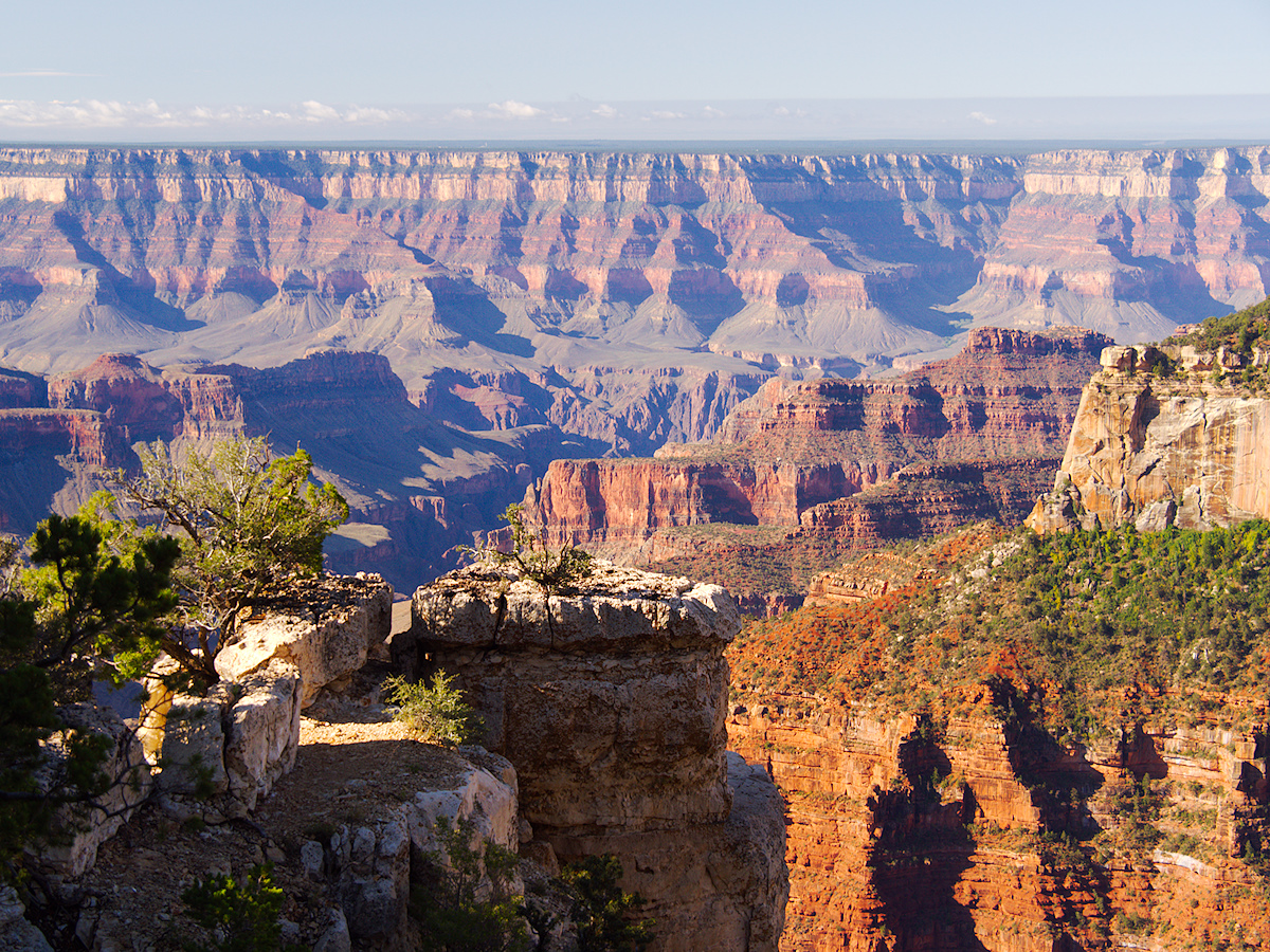 Grand Canyon view from the North Rim.